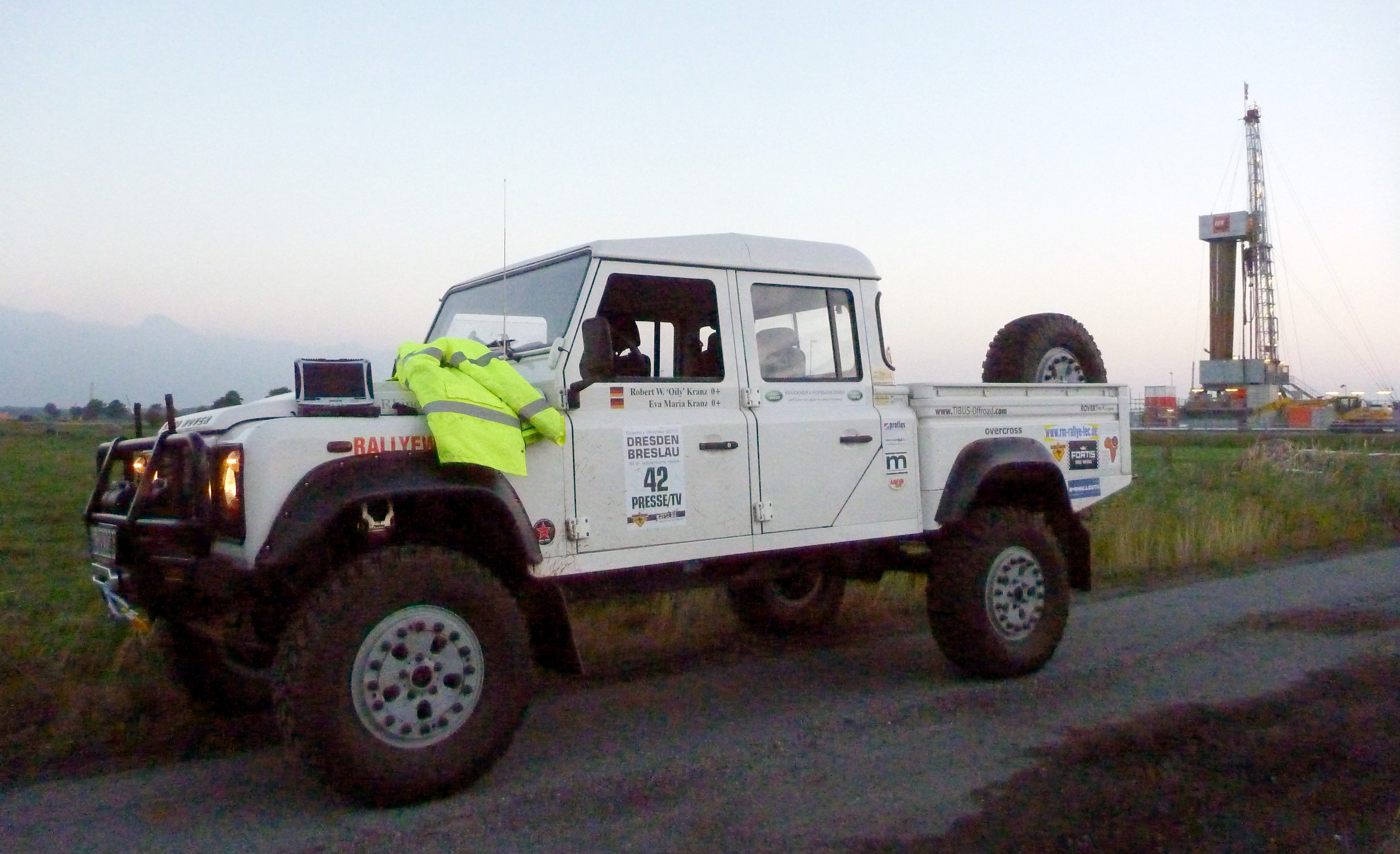 Land Rover Defender 130CC Puma For the development and testing of components RALLYEWERK chose the Defender with the Ford Puma engine. Building of the whole new truck will commence in early 2011 and presentation to the public will be at the Billing Show 2011